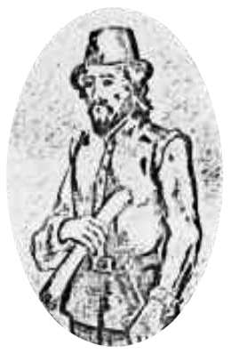 This image was copied from en. The original description was: Woodblock print of William Adams. According to the scholarly paper William Adams and Early Enterprise in Japan: Some in England were embarrassed that no similar monument to Adams existed in his native land and after years of lobbying a memorial clock was erected in Gillingham in honour of a native son who, according to the booklet produced for the dedication ceremony in 1934, a time of Anglo-Japanese alienation, had “discovered” Japan. Like the inscription at the anjin-tsuka, the booklet is a product of fantasy and hyperbole, only much more so. […] The booklet also contains a drawing of Adams, pure invention as no contemporary image of him exists, depicting him standing on a ship's deck, chart in right hand, left hand resting on sword, gazing resolutely towards the unknown horizon.